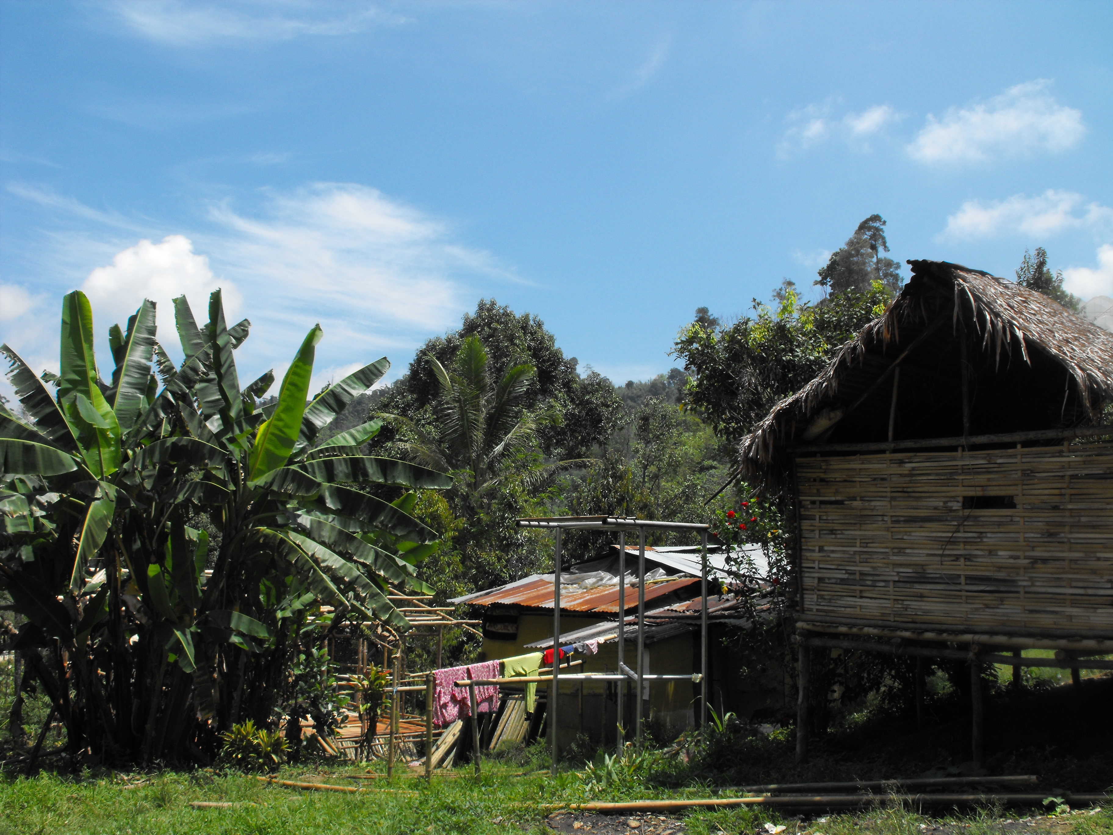 Orang Asli´s village - Cameron Highlands - Malaysia